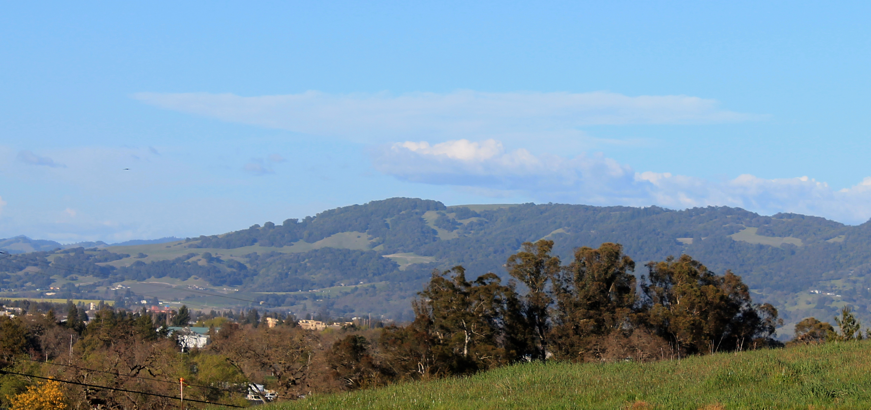 photograph of Taylor Mountain in Sonoma County, California (max elevation 429 meters) south of Santa Rosa, viewed from the southwest (Grove Avenue near Cotati)